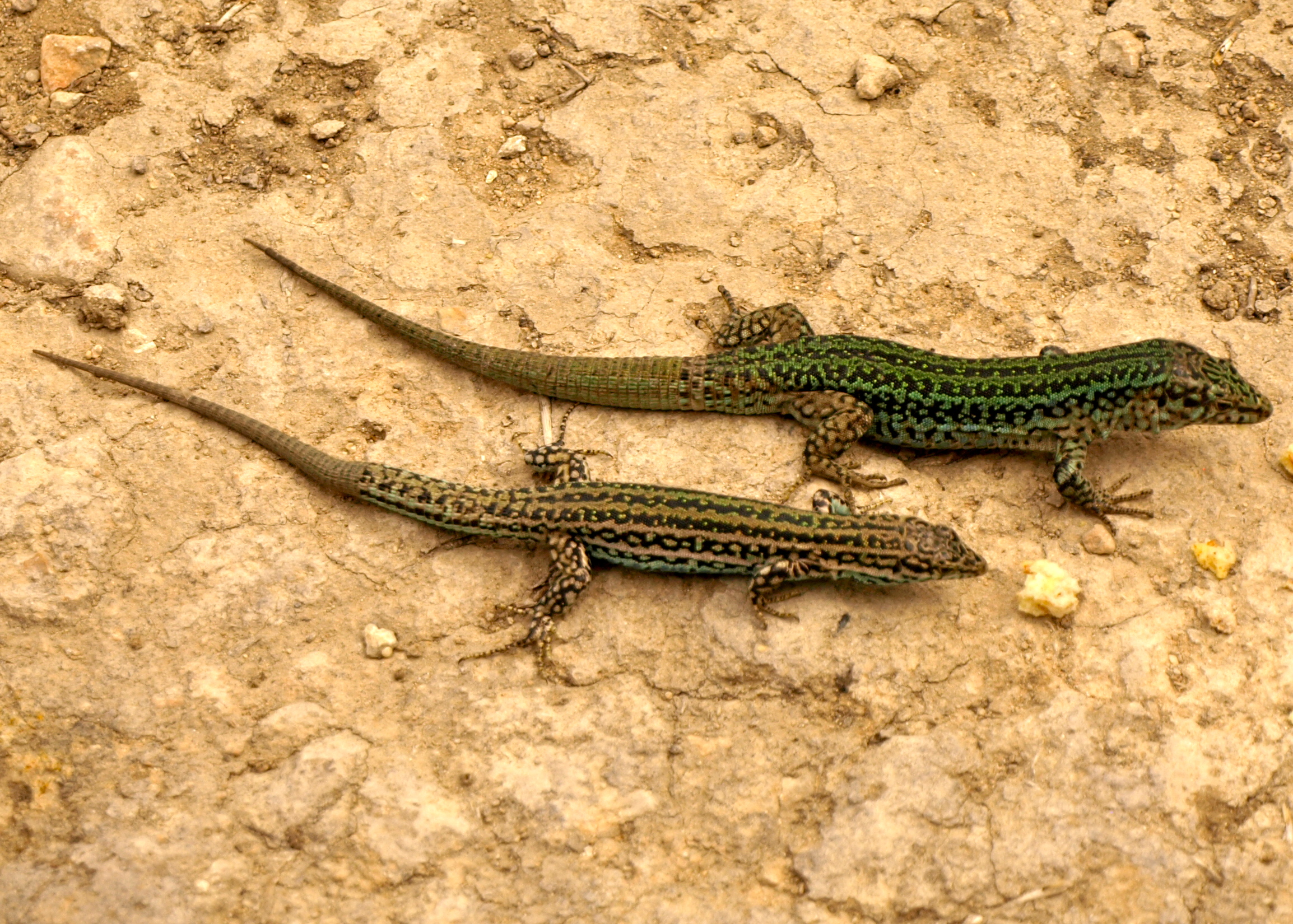 Pythisuse Wall Lizard Place Lloc/Place: Camí de sa pujada, Formentera